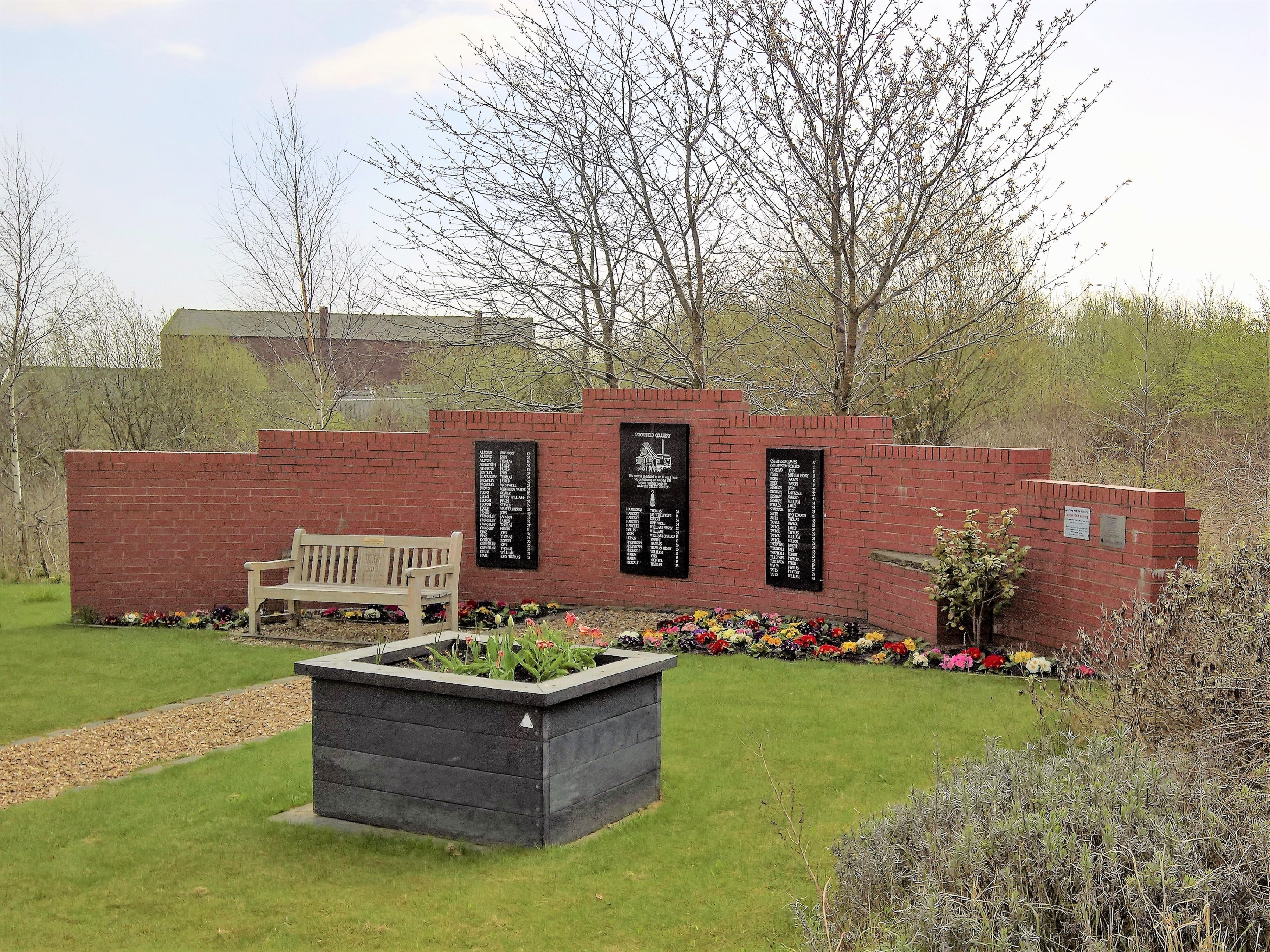 The Moorfield Colliery disaster monument in on the A646 in Altham near Accrington, Lancashire. On 7 November 1883 an underground explosion killed 68 miners, including 13 boys and the colliery manager.